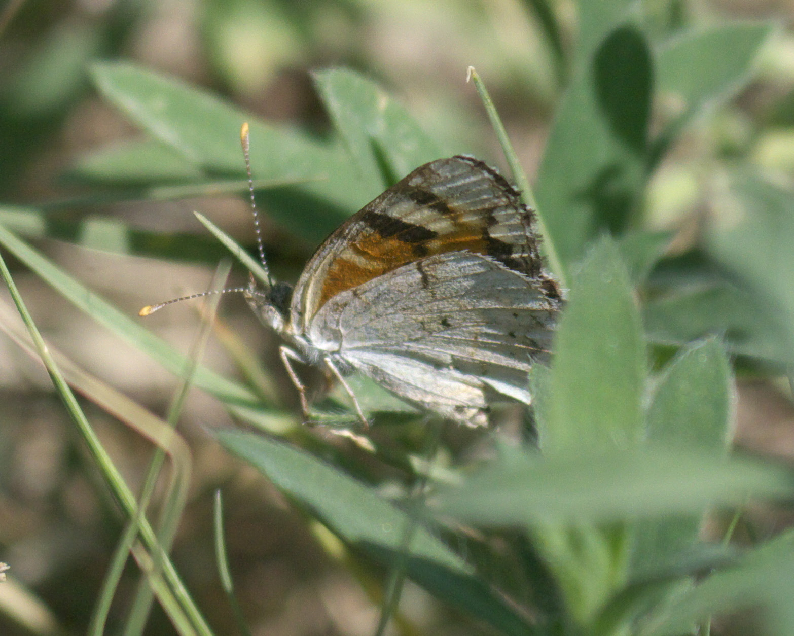 Phyciodes picta, Painted Crescent - Hodges #4484, ID Confidence: 80